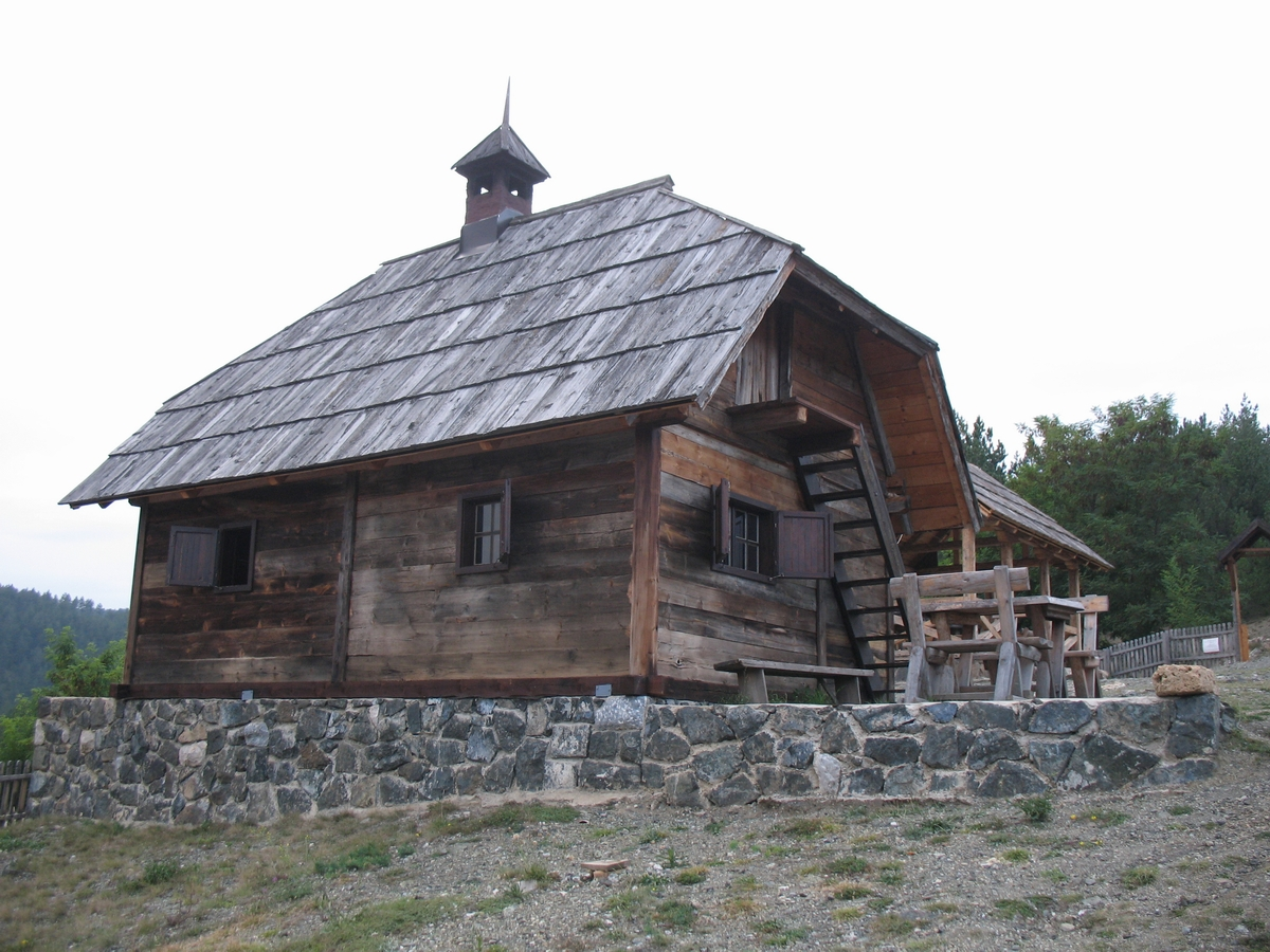 Memorial complex of clairvoyant Tarabići in Kremna near Užice, Serbia.